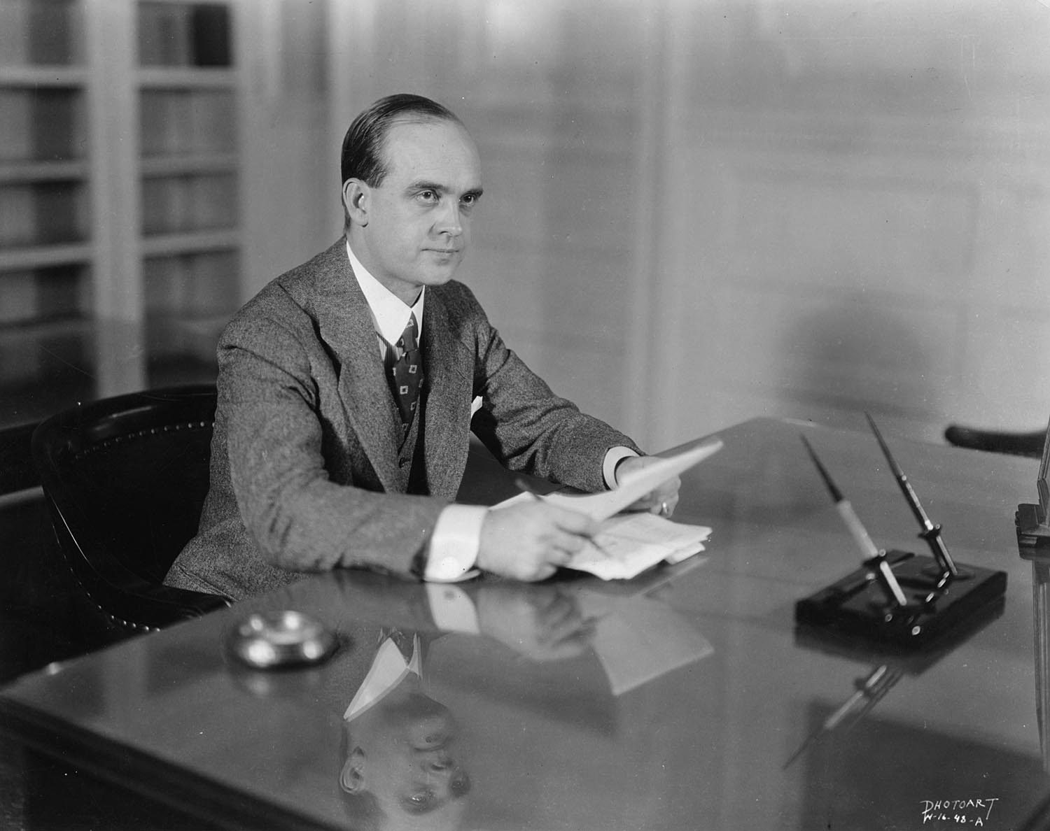 From the archives: "Glenn Frank seated at his desk. He served as the president of the University of Wisconsin--Madison from 1925 - 1937." Local identifier: UW.UWArchives.031103as02.bib